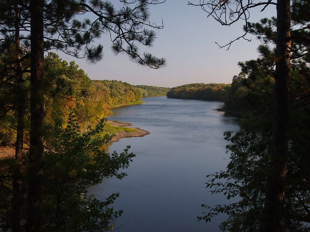 View from Chippewa Lookout, Crow Wing State Park, Minnesota, USA.